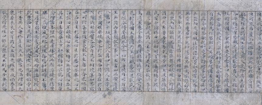 Hakubyo Golden Light Sutra, Itsuo Art Museum, Ikeda, Osaka, Japan